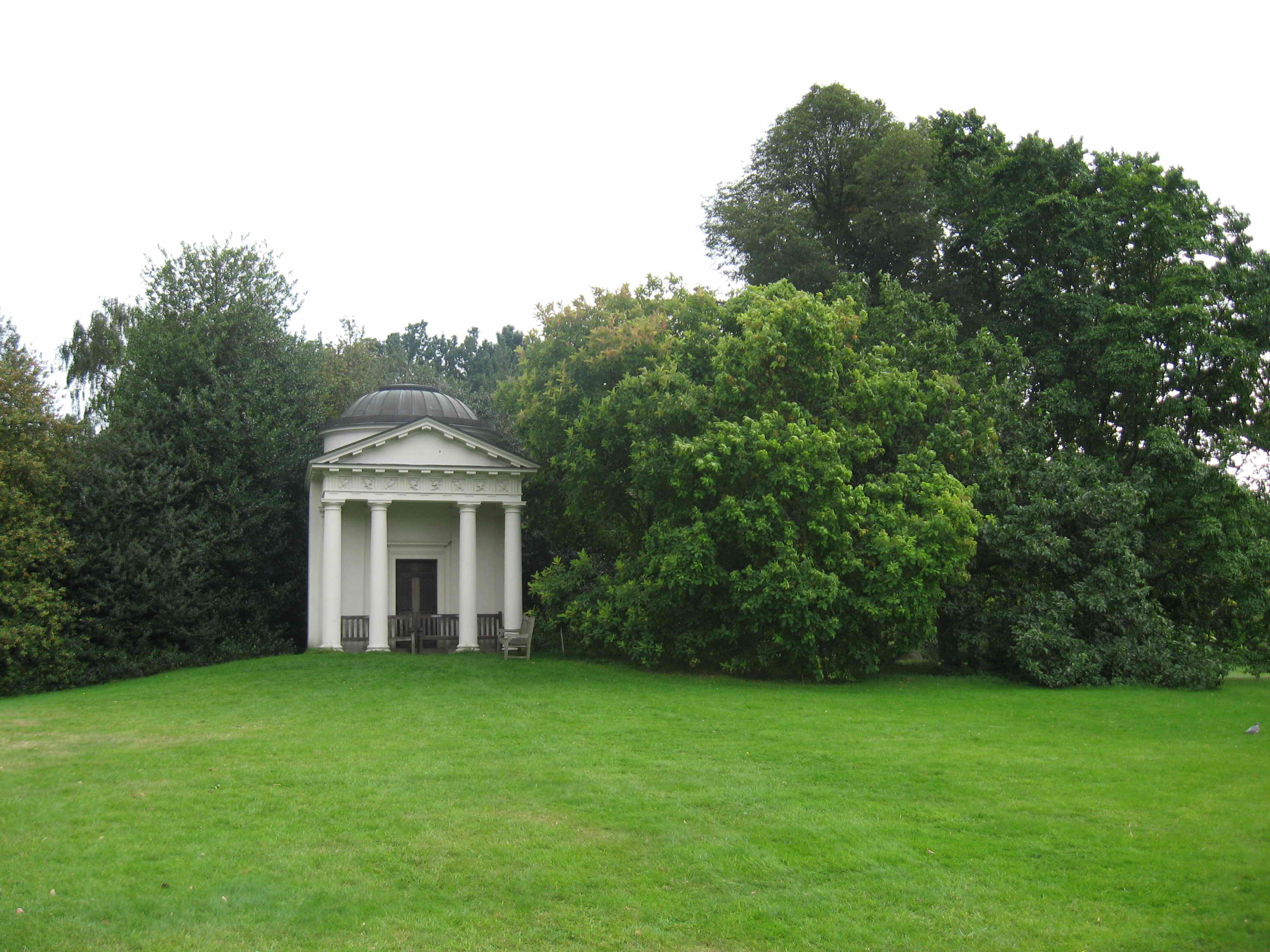 Kew Aiolosz church